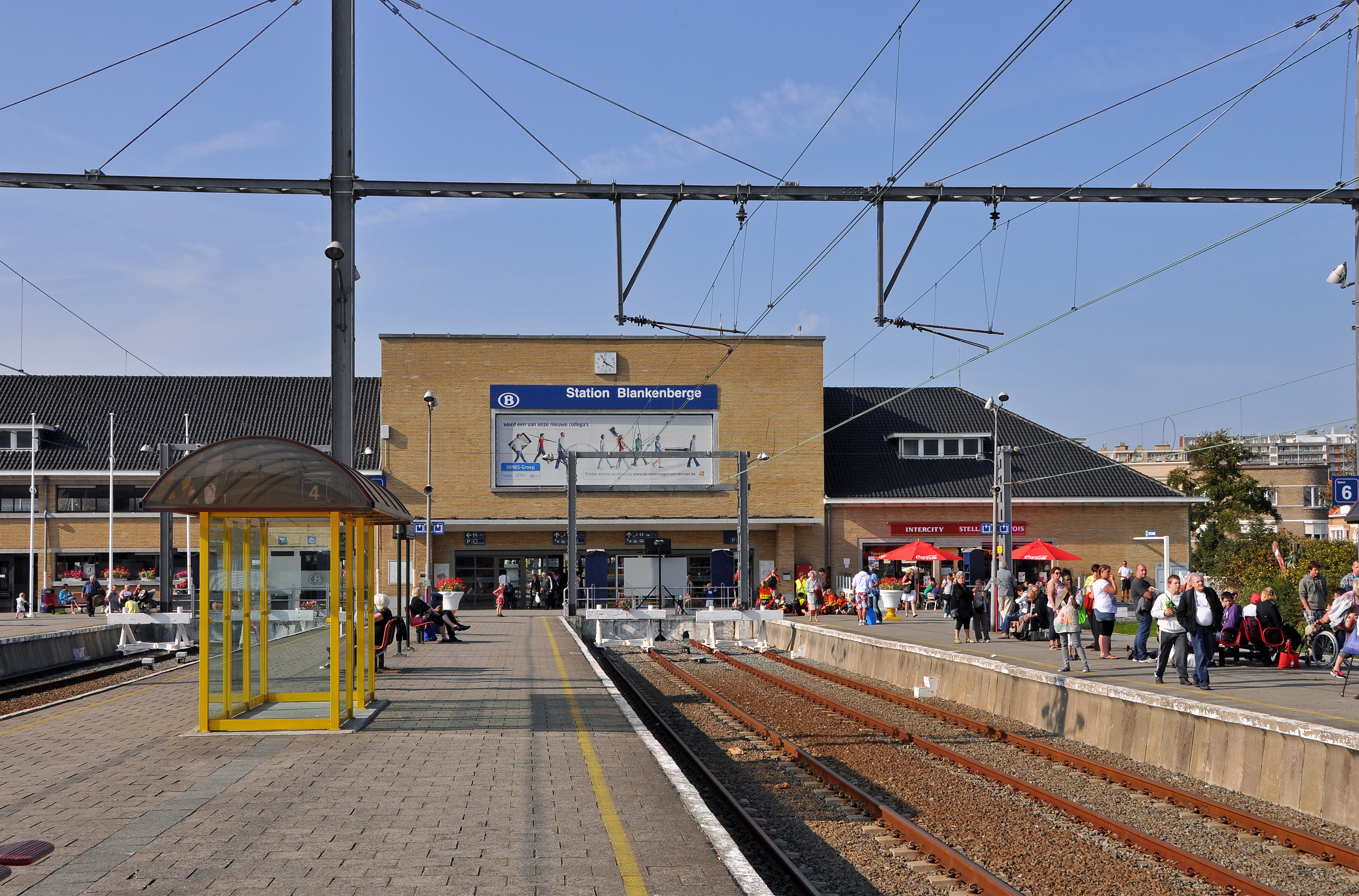 Blankenberge (Belgium) train station in 2011. The building was pulled down in November 2013.